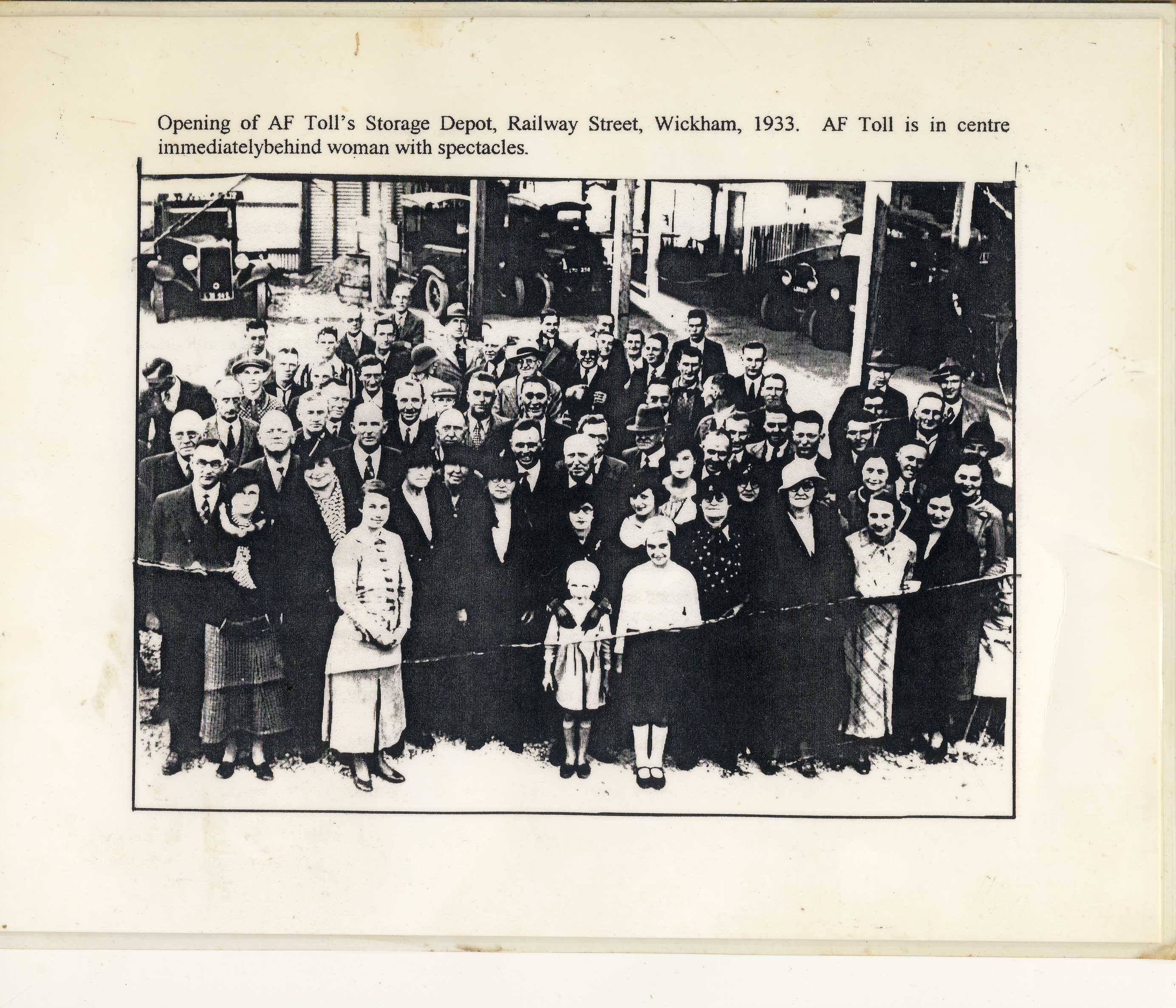 Opening of A.F. Toll's Storage Depot. 1933. A.F. Toll is the man behind the woman in glasses.